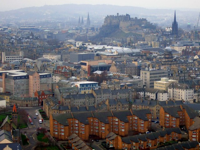 Edinburgh View over the older part of the city from Salisbury Crags. Looking toward the Cathedral in the far distance, behind which is Corstorphine Hill. Edinburgh Castle on the rocky outcrop and Edinburgh University buildings and the Lawcourts in the heart of the image. Dumbiedykes at the foot of the picture.